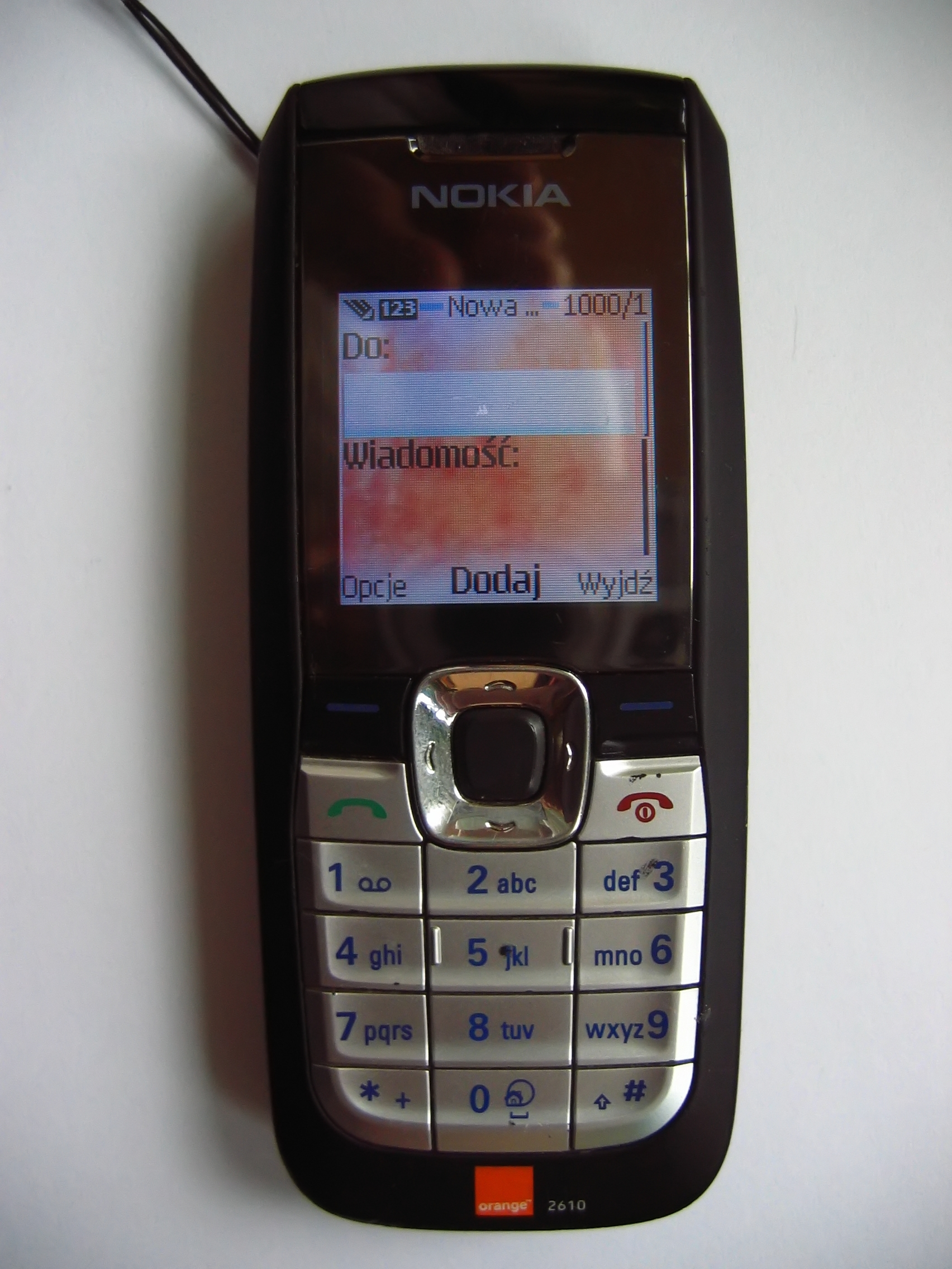 Nokia 2610